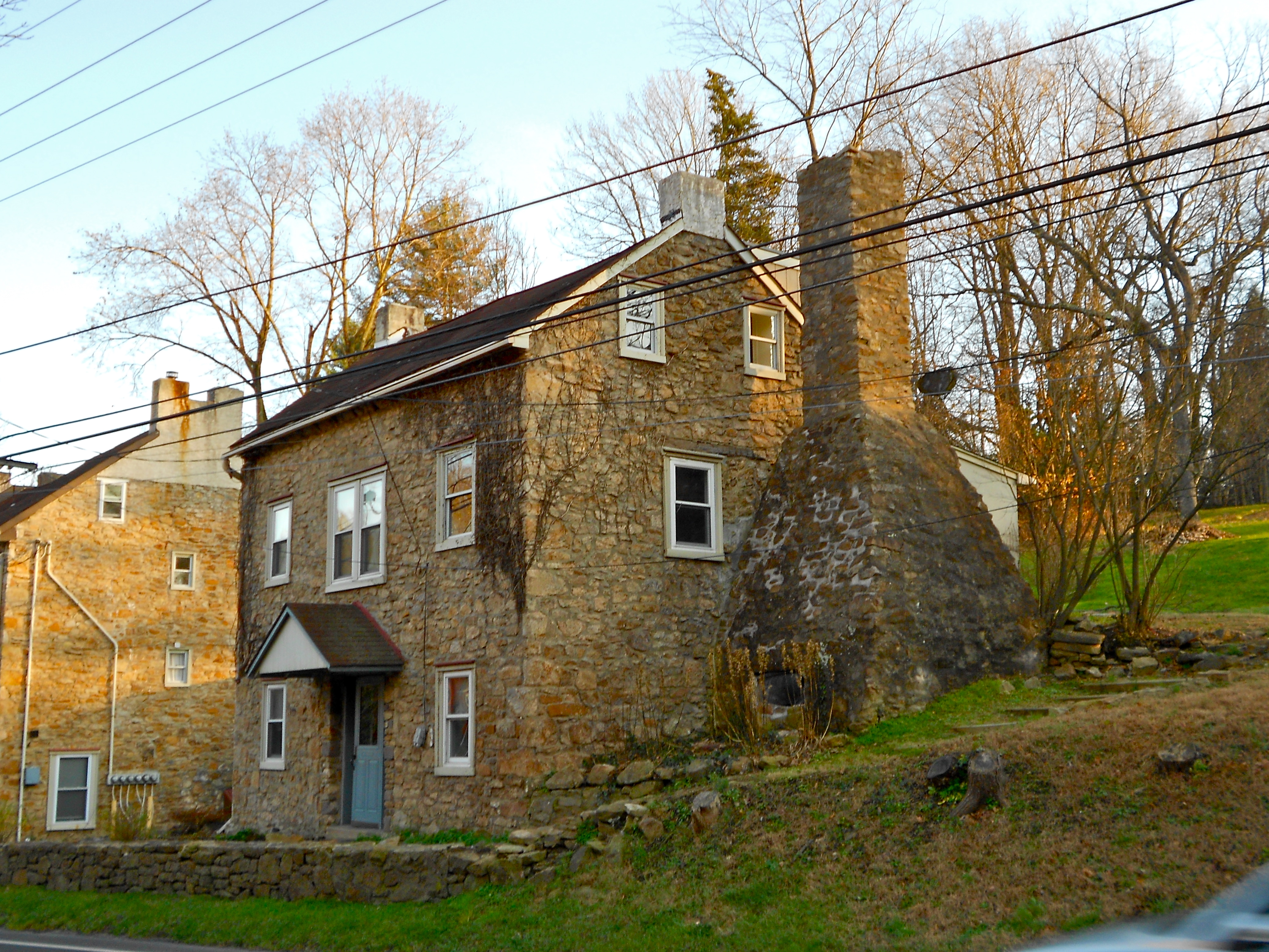 Spring Valley Historic District on the NRHP since January 7, 1988. At Mill Road and U.S. Route 202, in Buckingham Township, Bucks County, Pennsylvania. Note the width of the chimney/furnace at the base.